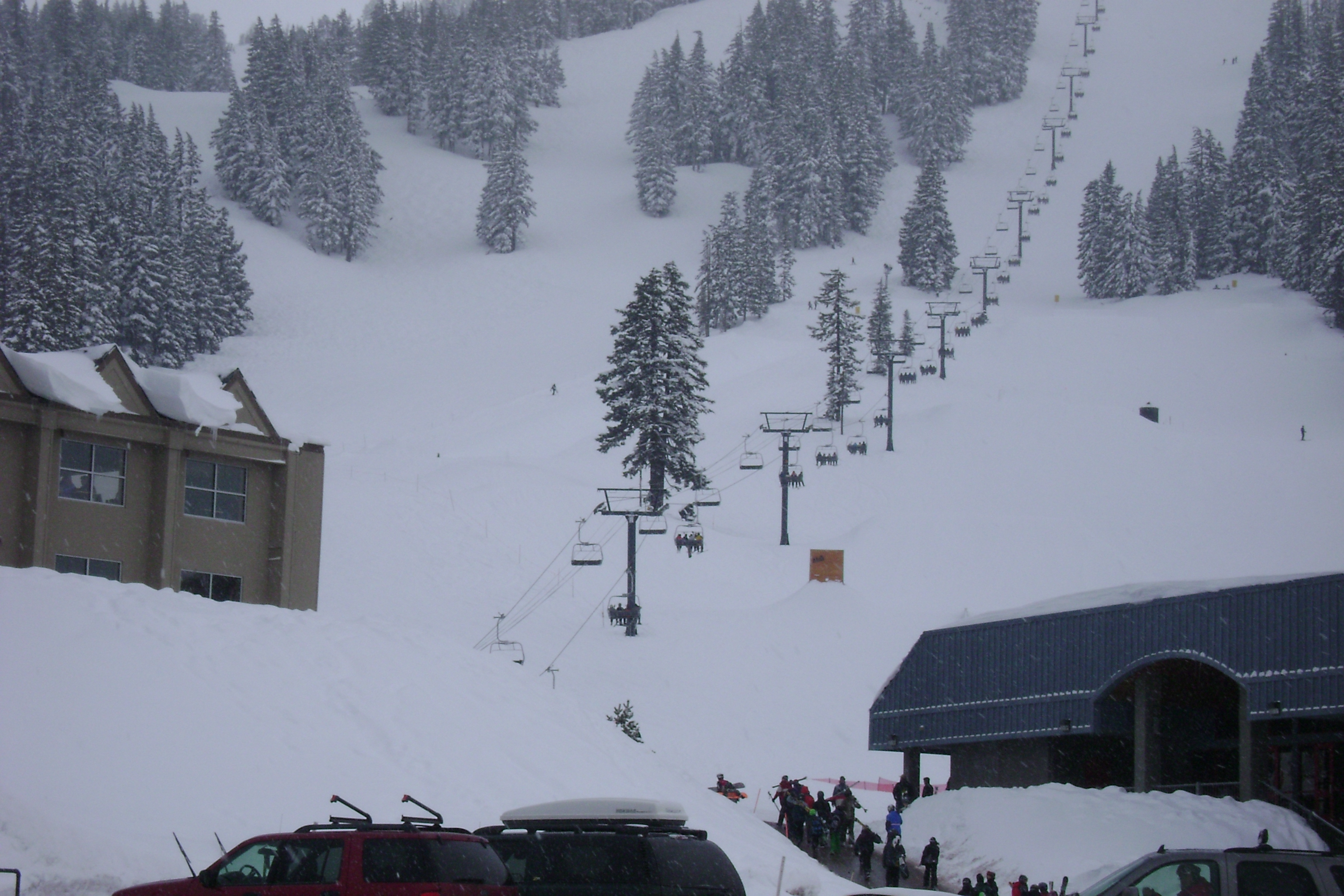 Pine Marten Express, a high-speed quad chairlift made by Doppelmayr CTEC at Mt. Bachelor Ski Area. On the left is the West Village Lodge, also called the main lodge. On the right is Bachelor Ski & Sport Shop, the largest retailer of it's kind in the pacific northwest. This photo was tooken from the parking lot.